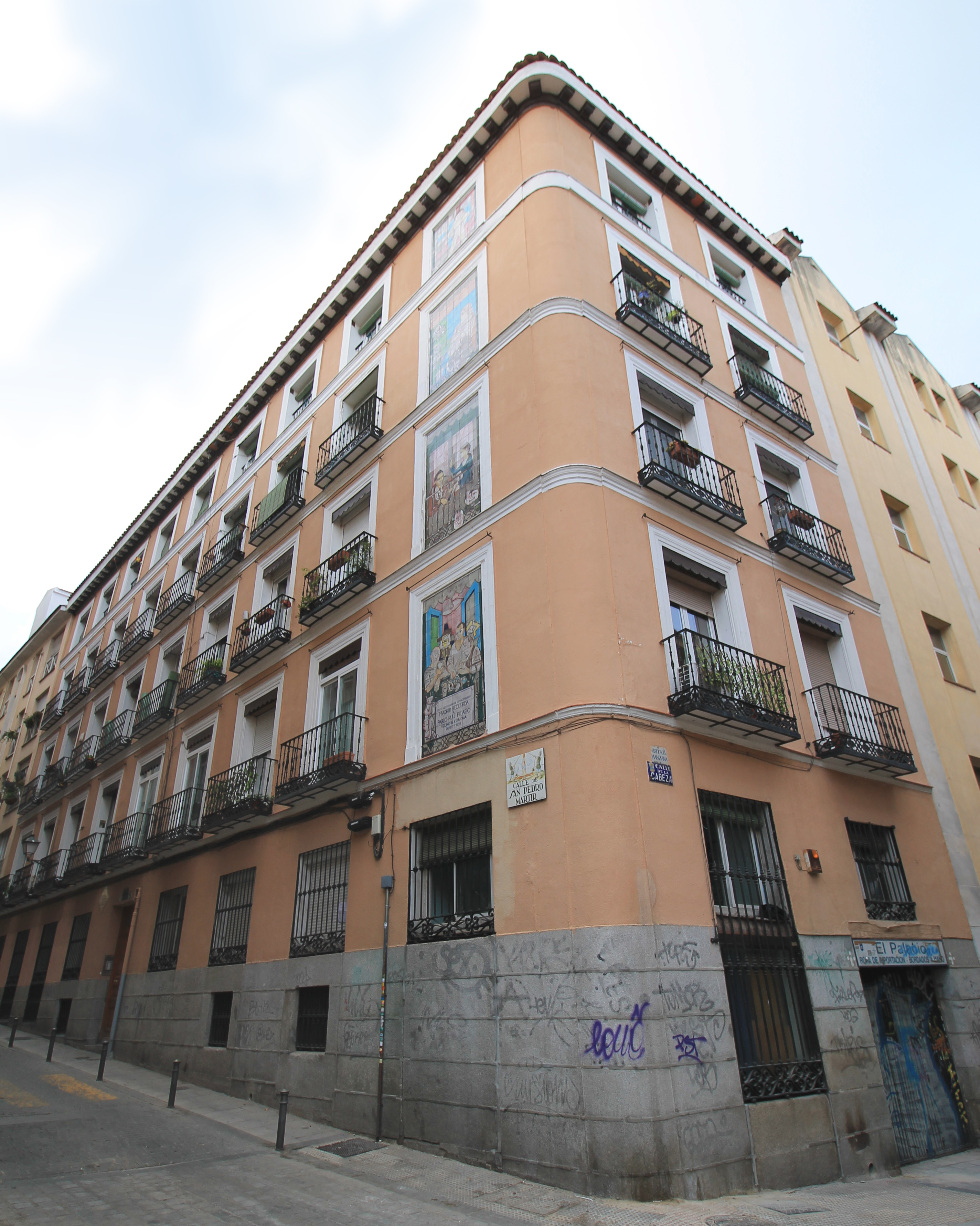 Housing building at 5 Calle de San Pedro Mártir (street) in Madrid (Spain).